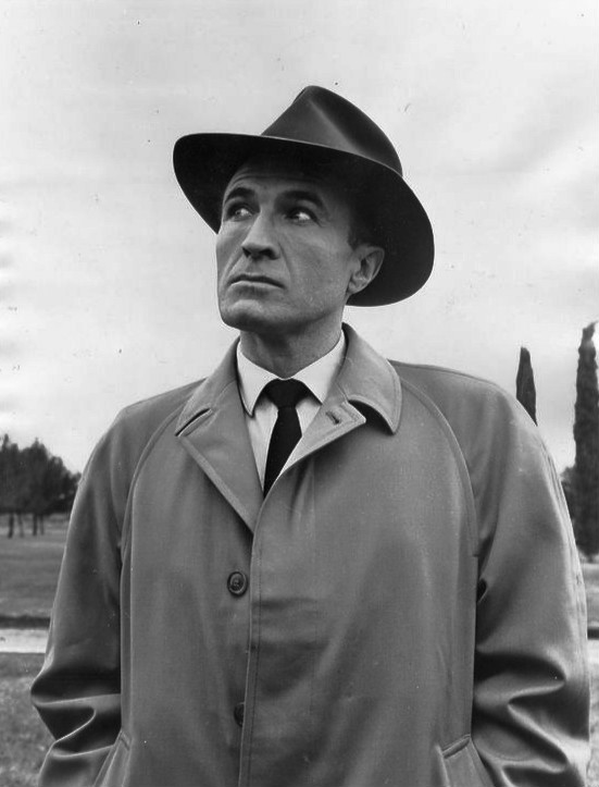 Photo of Barry Morse as Lieutenant Girard from the television program The Fugitive.